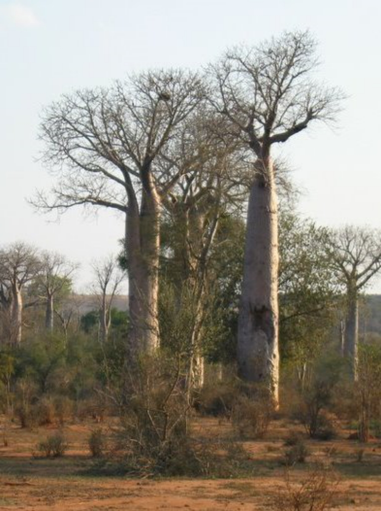 Adansonia za - Madagascar